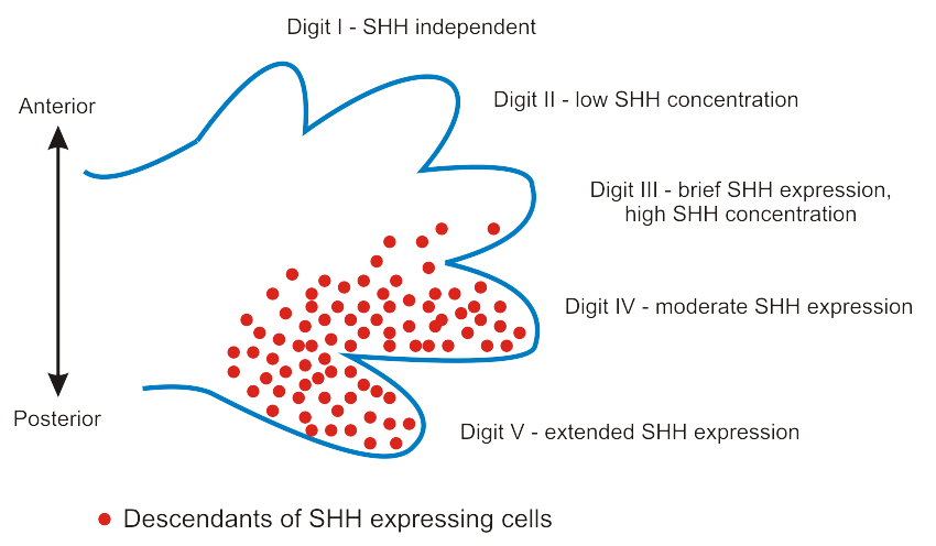 Sonic hedgehog is limd development, based on material published in Harfe BD, Scherz PJ, Nissim S, Tian H, McMahon AP and Tabin CJ (2004). "Evidence for an expansion-based temporal Shh gradient in specifying vertebrate digit identities". Cell 118 (4): 517-528.